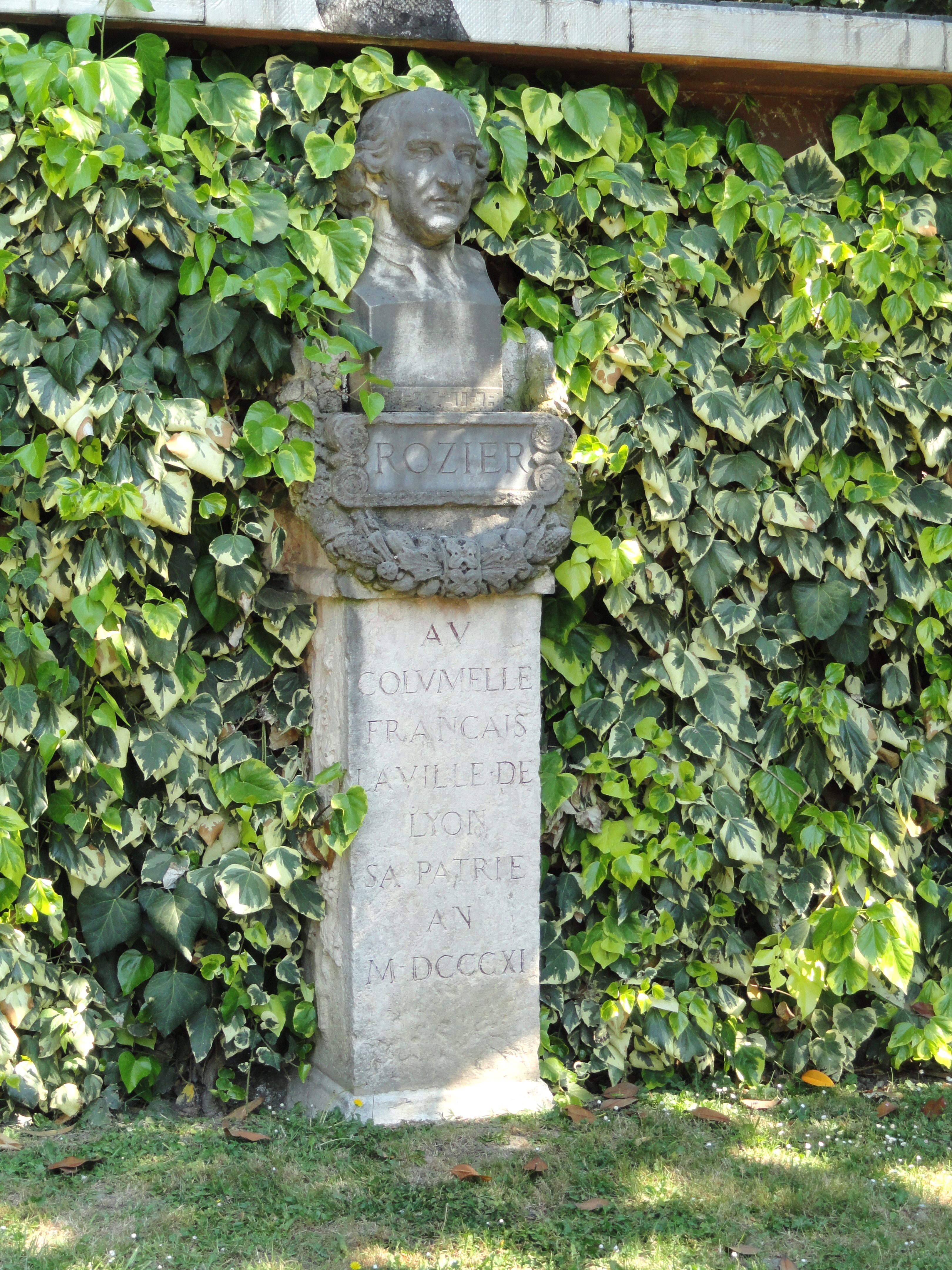 Monument to Jean-Baptiste François Rozier (Abbé Rozier, le Columelle français), Parc de la Tête d'Or, Lyon, France. Le sculpteur est R. Benoist. Le buste original était de Joseph Chinard.